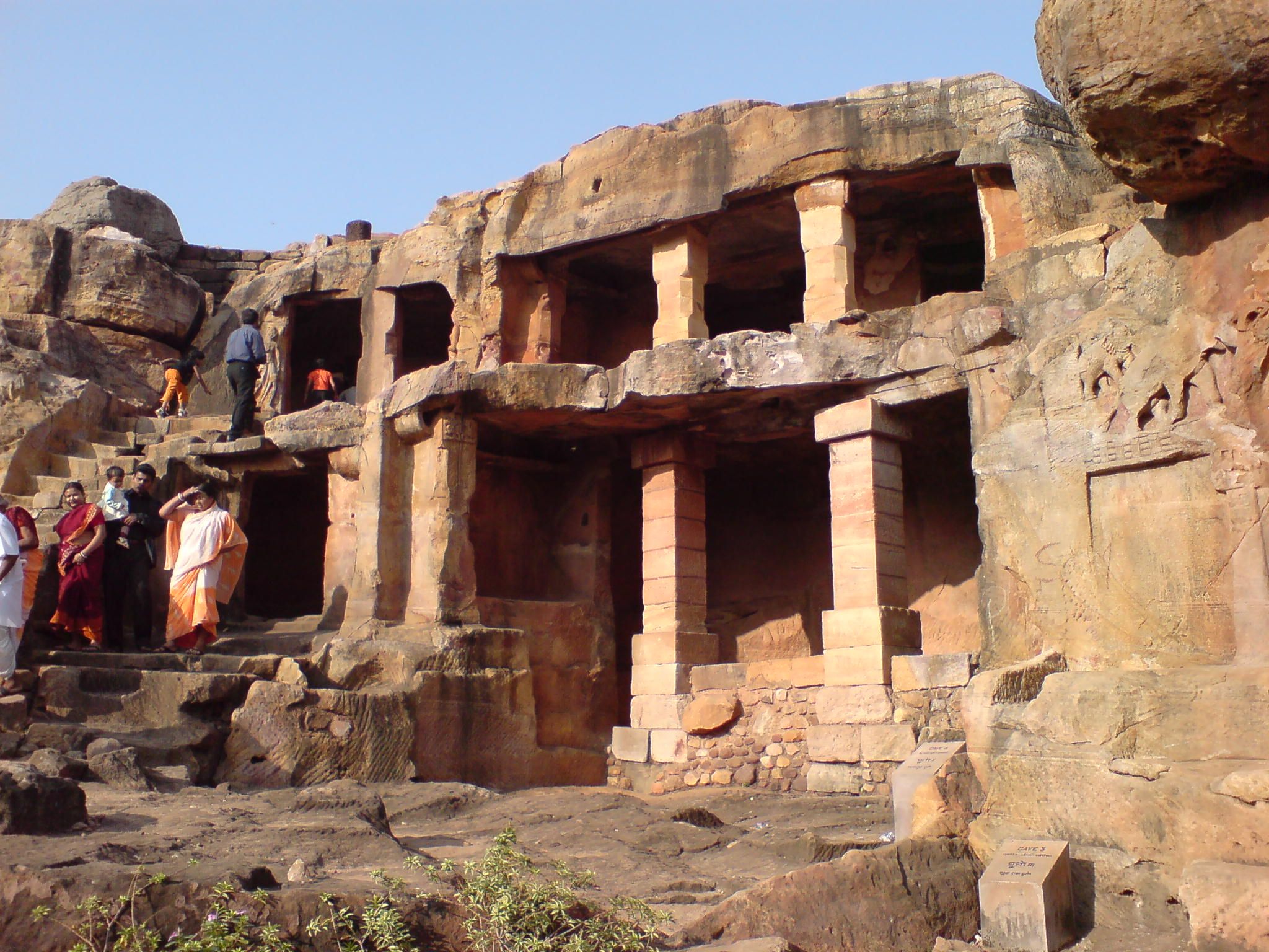 Buddhist site (excavated)